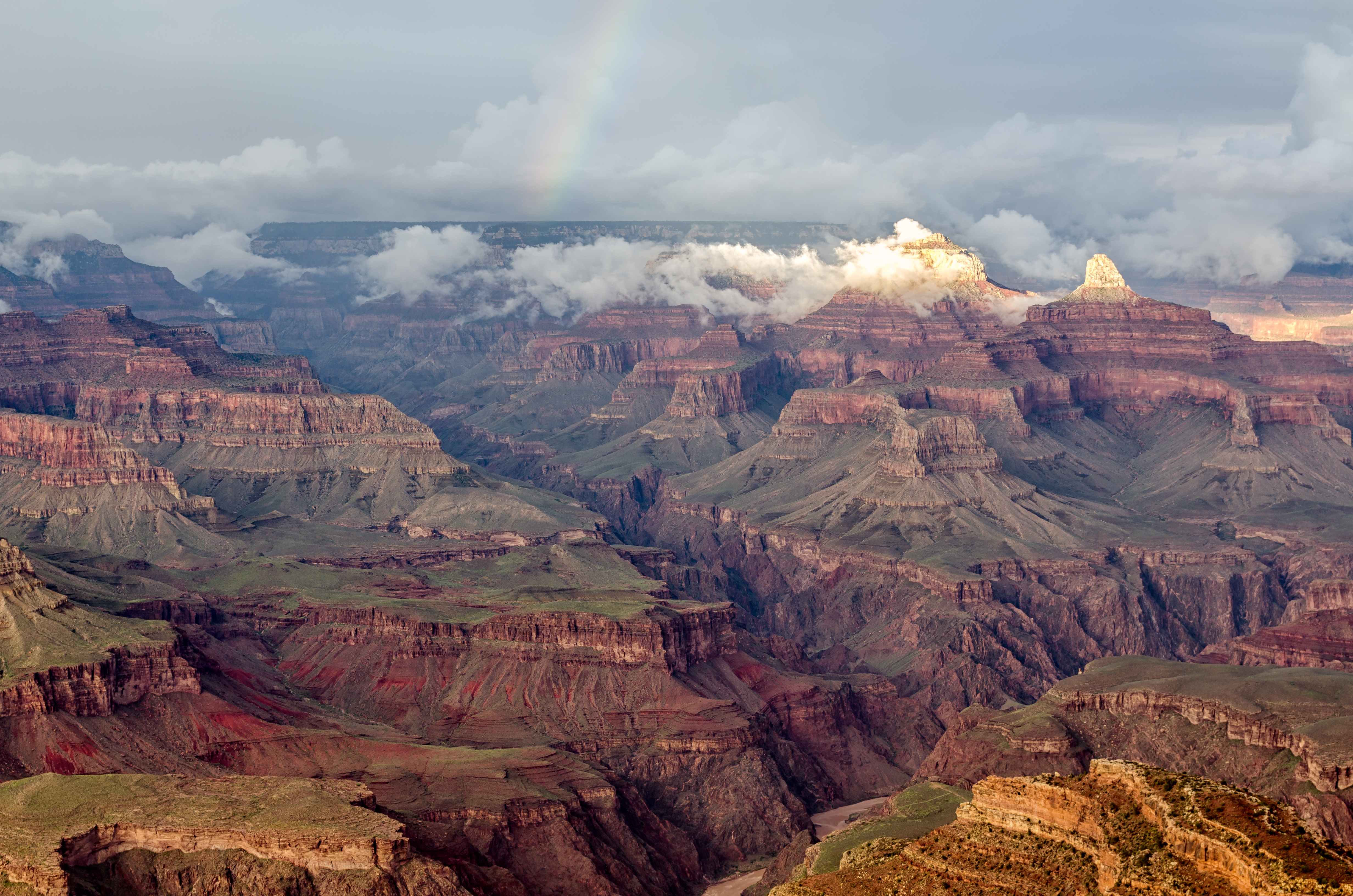 View from Hopi Point over Grand Canyon with rainbow